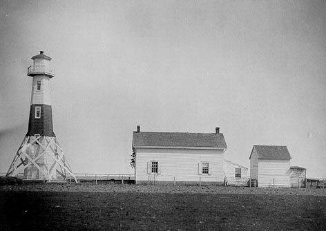 Elm Tree Beacon Lighthouse, on Staten Island, New York, built in 1856, served as the front range (or leading light) for Swash Channel.